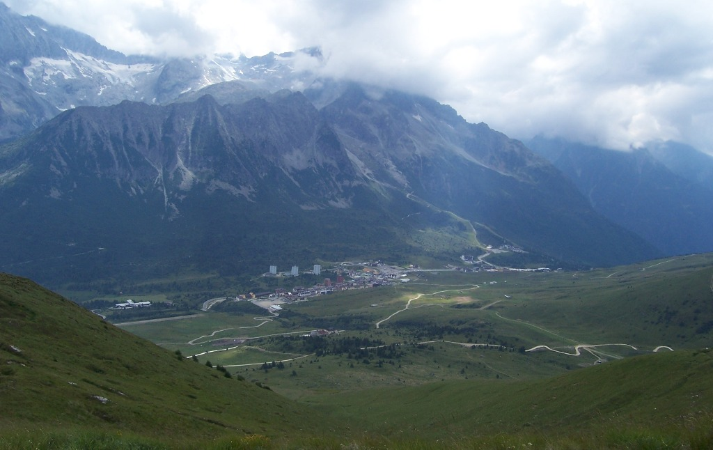 Pass of Tonale, Ponte di Legno, Val Camonica